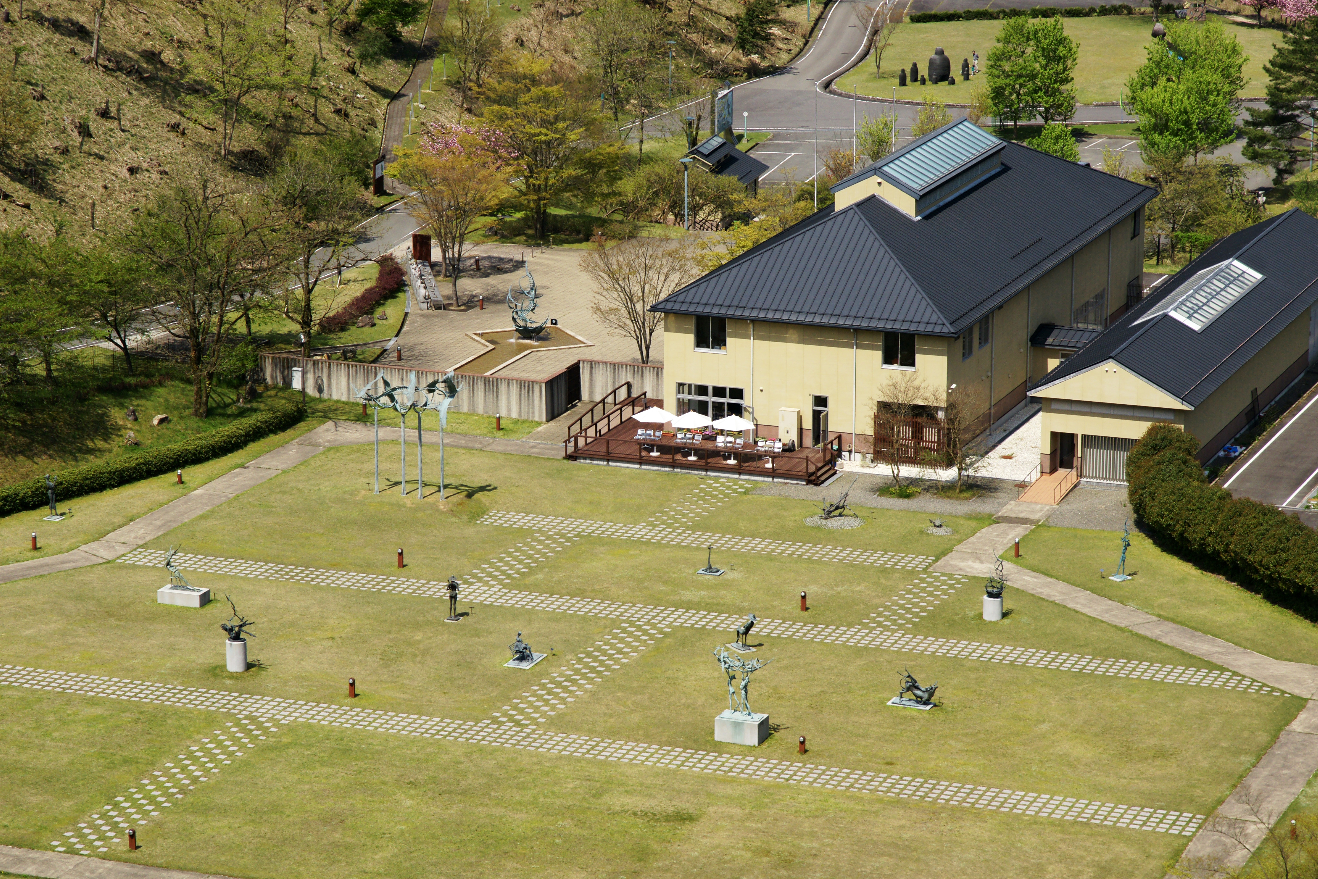 Asago Art Village Museum in Asago, Hyogo prefecture, Japan.